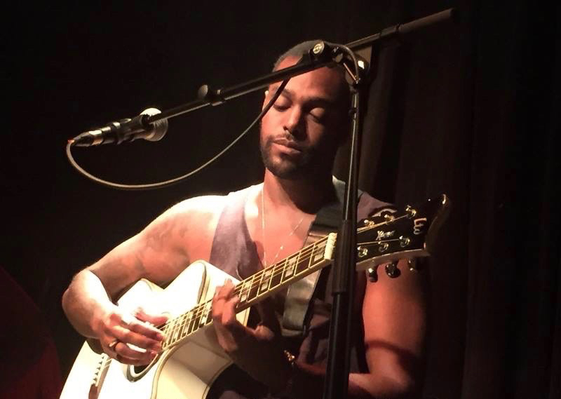 Austin Brown performing in 2016.